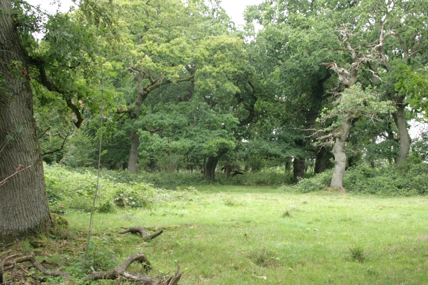 Langå Egeskov, at Langå, Jutland, Denmark: Glade. This oak forest is the only one in Denmark with an ongoing cattle-pasture. It is owned by "Danmarks Naturfredningsfond" (a foundation under the Danish society for Nature Conservation).